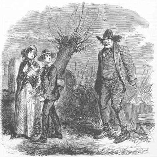 Great Expectations: Joe and Biddy are being followed by Orlick (chapter 17), by John McLenan : "Hulloa!" he growled; "Where are you two going?".